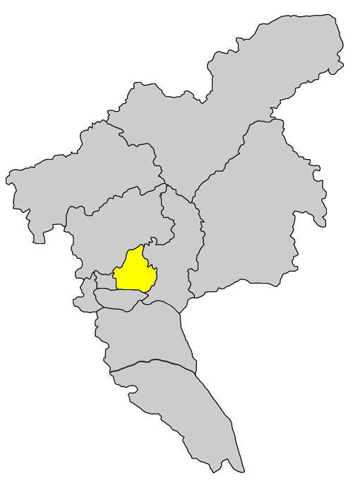 Location of Tianhe District, Guangzhou